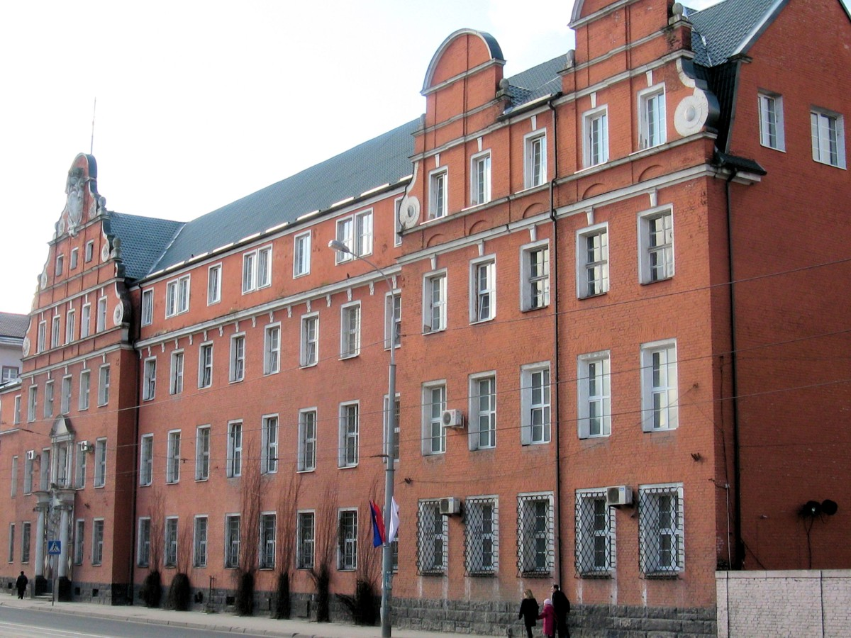 Kaliningrad. FSB building